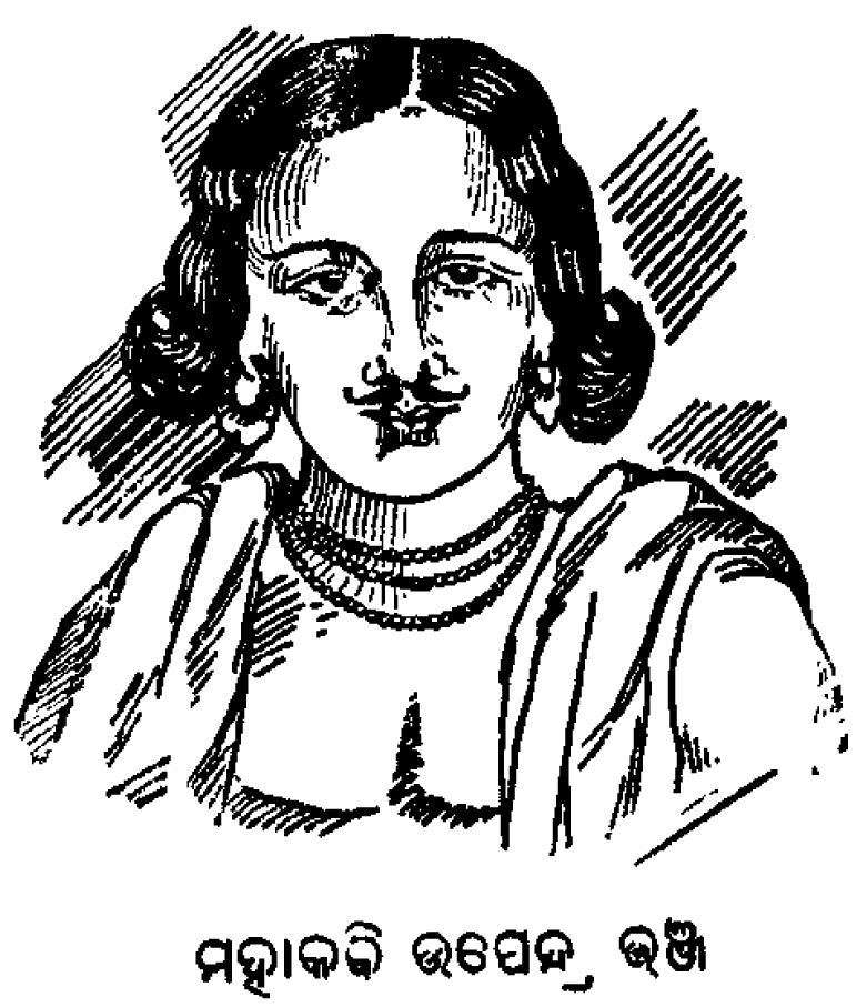 Kabi Samrata Upendra Bhanja. Uploaded under Wikipedia for Odia Literature